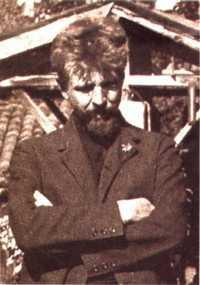 Otto Gross